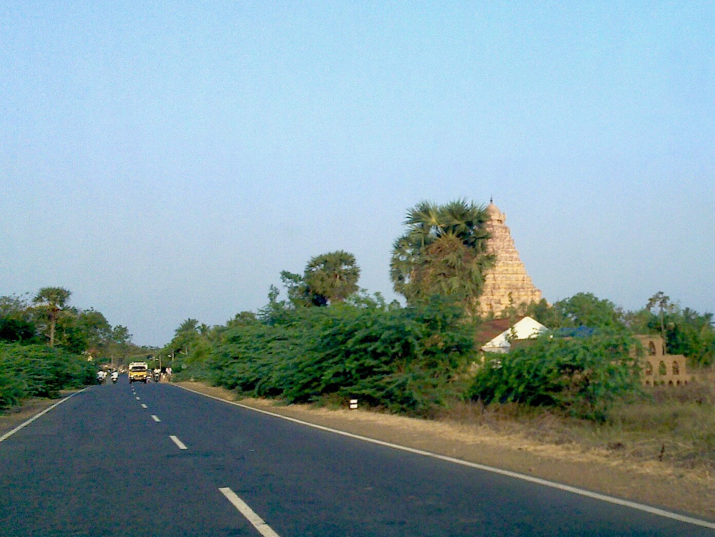 A view of Gangai Konda Cholapuram